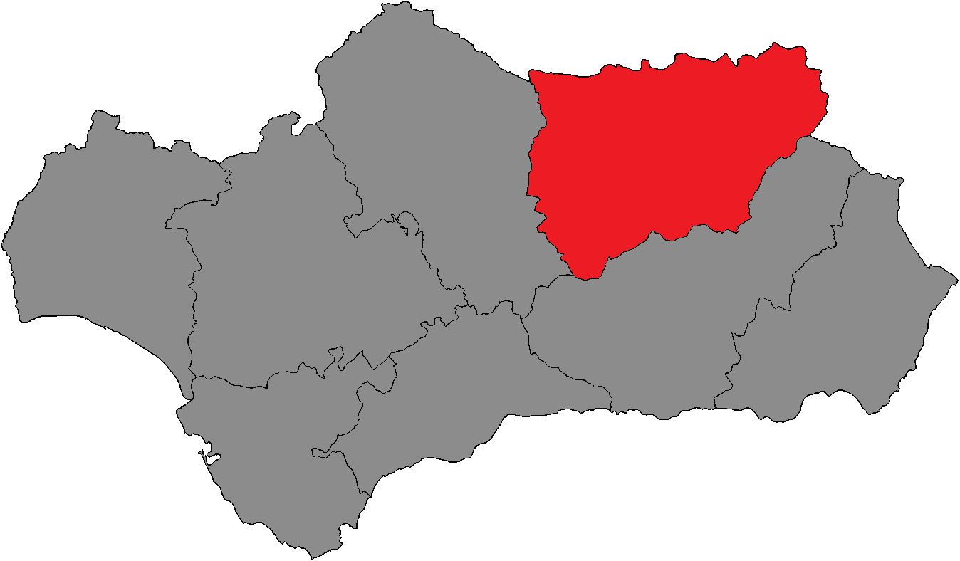 Andalusian Parliament district of Jaén.